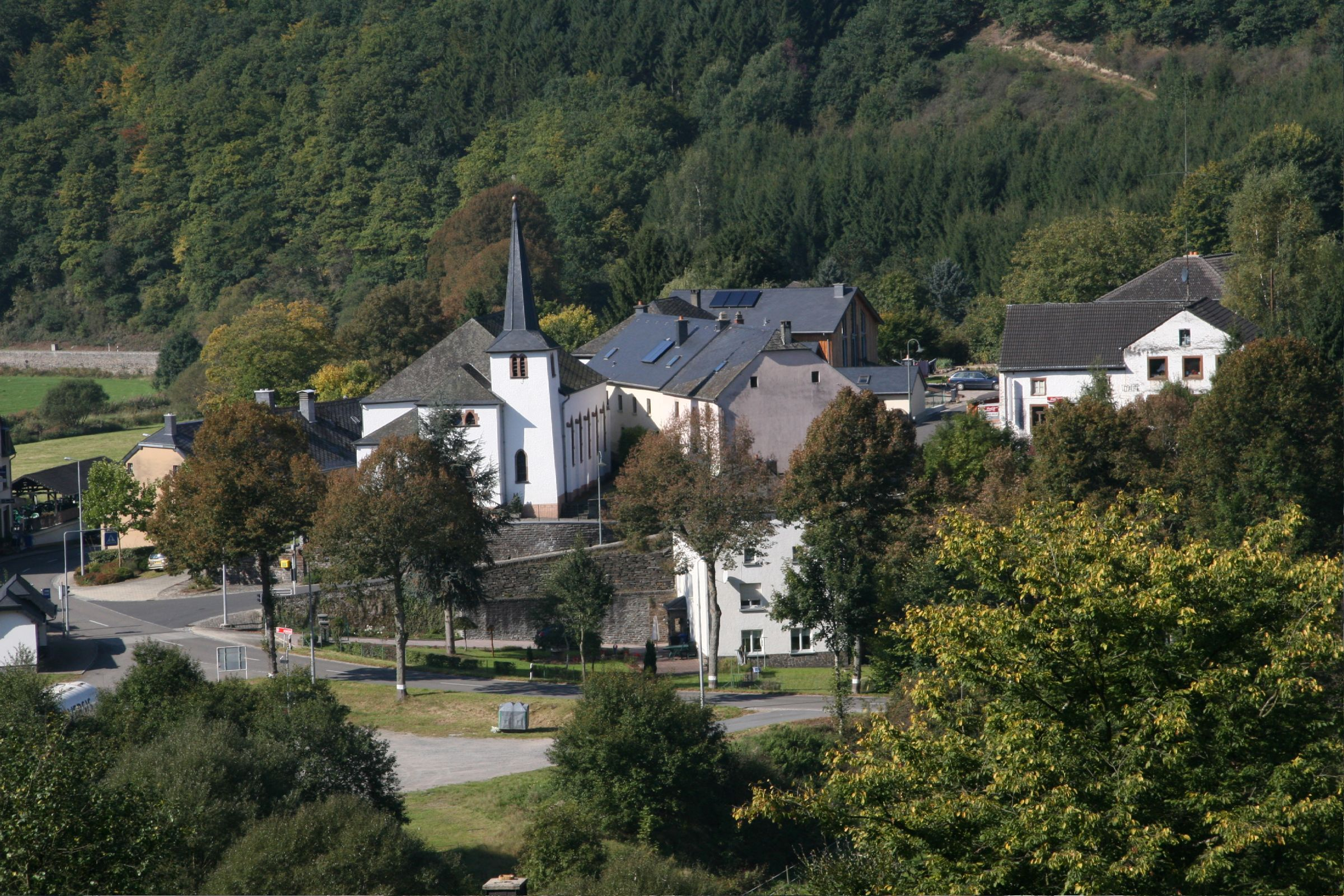 Untereisenbach, view from Übereisenbach in Germany.